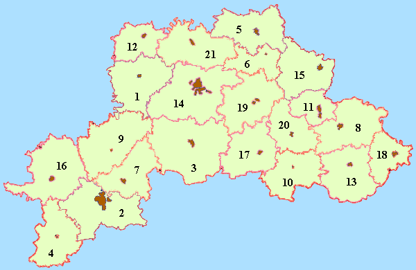 Mogilev Region map by Al Silonov